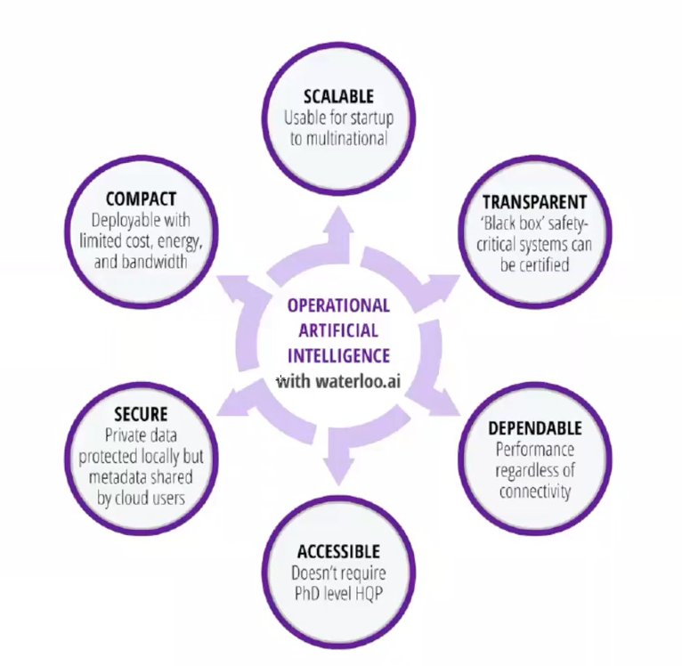 Diagram of components of operational AI. Frame from "Operational Artificial Intelligence: Anytime, Anywhere, Anyone", talk by Professor Alexander Wong, 12-12-2017, uploaded to CENTRA community.